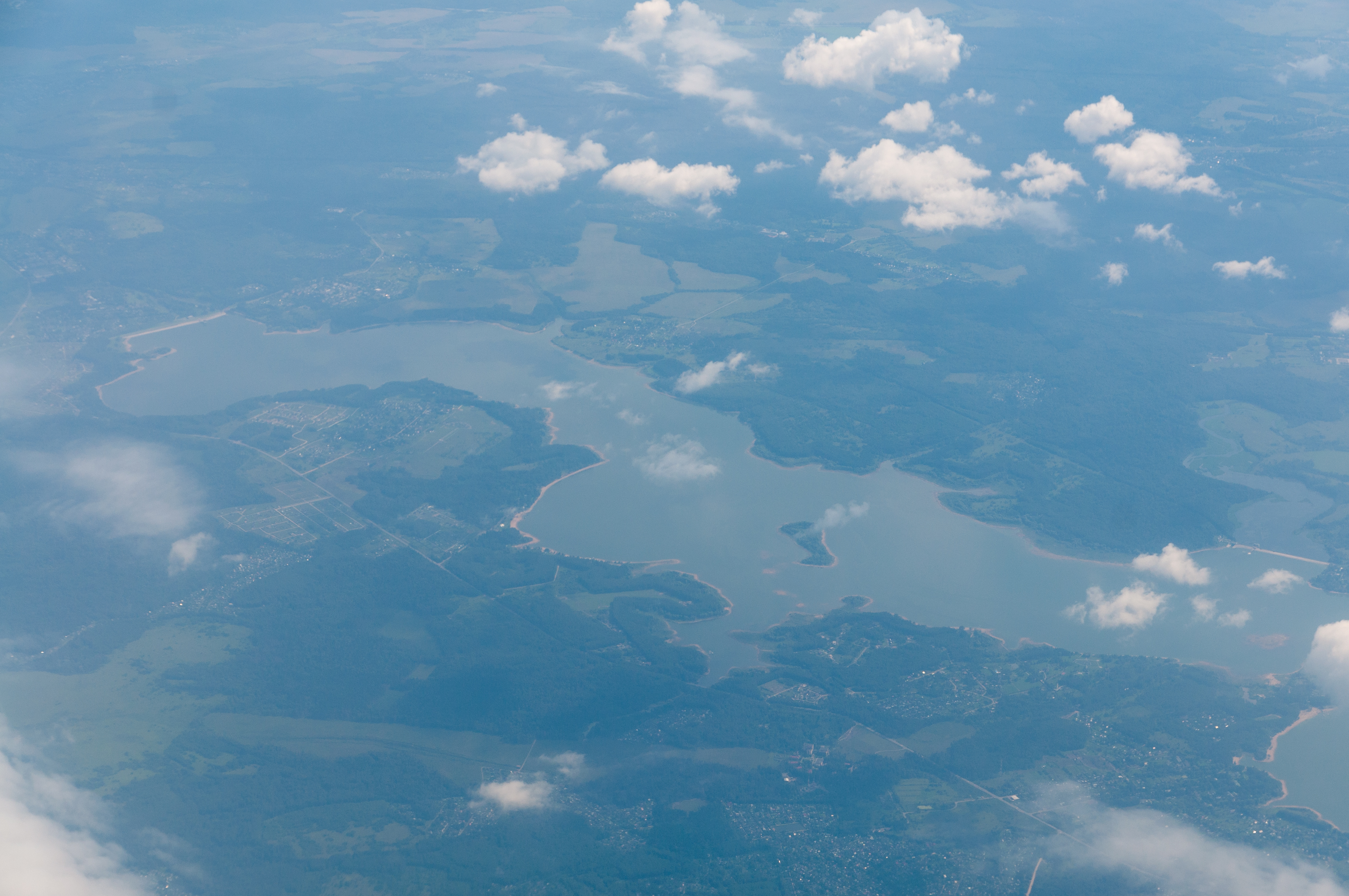 Aerial view of Mozshayskoe Reservoir on the Moskva River from Brussels-Moscow flight. View to south, the river flows from right to left, to the dam, and then continues further east to Moscow.